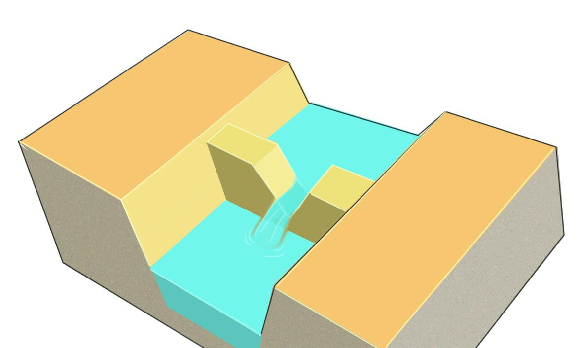 There are simple systems to ensure a leakage rate proportional to stream flow or water level. The height and angle of the triangle hole regulate the flow, between a minimum and a maximum determined by the manager of the water. Here, in case of flood, the water passes over the dam, and in case of drought, a small reserve of water is stored upstream. If the triangle down below, a mimimum flow would be maintained, but at the risk of draining the upstream portion of the system. It is a type of small dam useful in alternatives systems of management of stormwater in urban area. There slows stormwater - in waterproof areas - where rain water may abnormaly help swell the flood ..